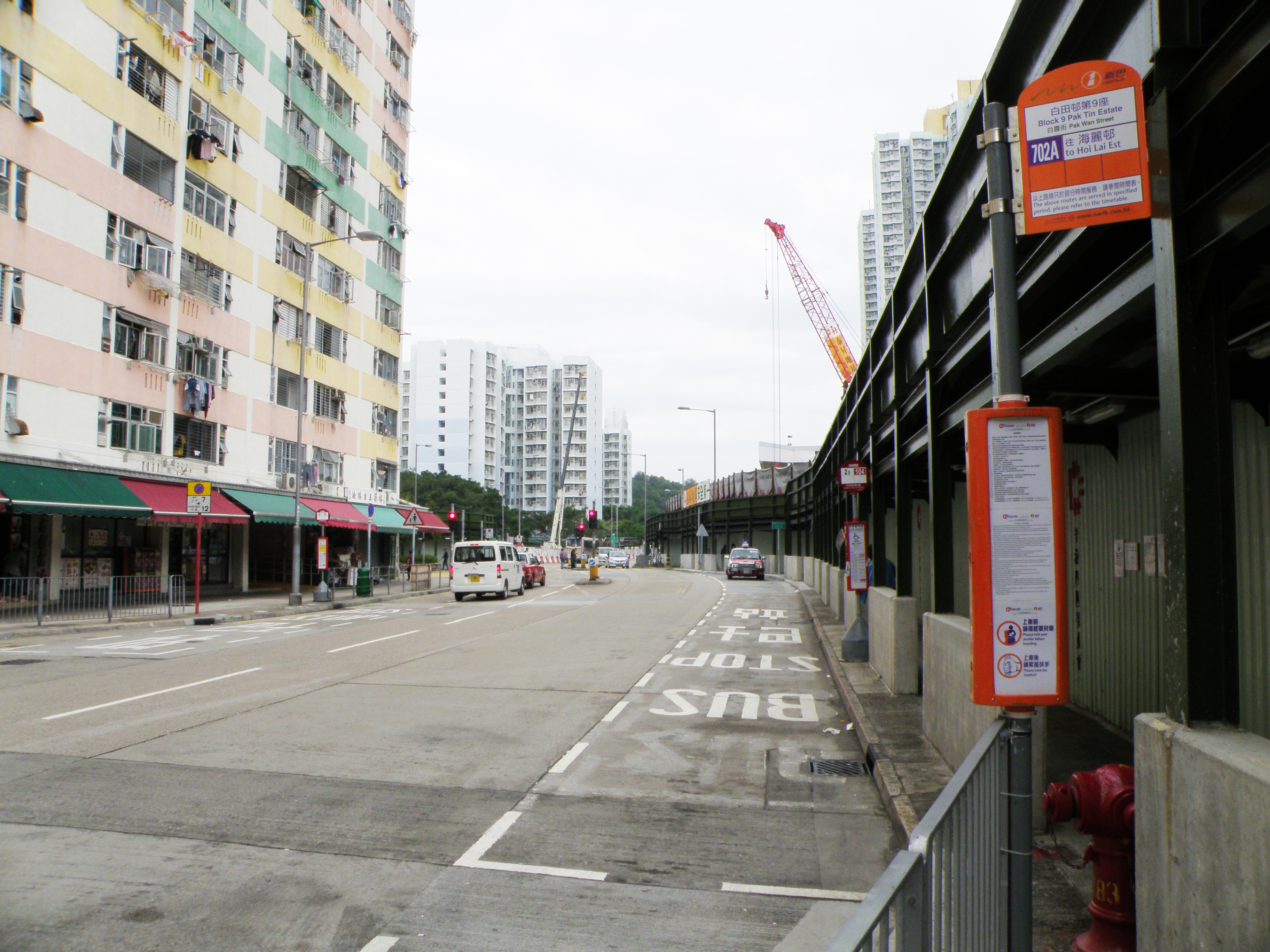 Pak Tin Temporary Bus Terminus in Shek Kip Mei, Hong Kong.